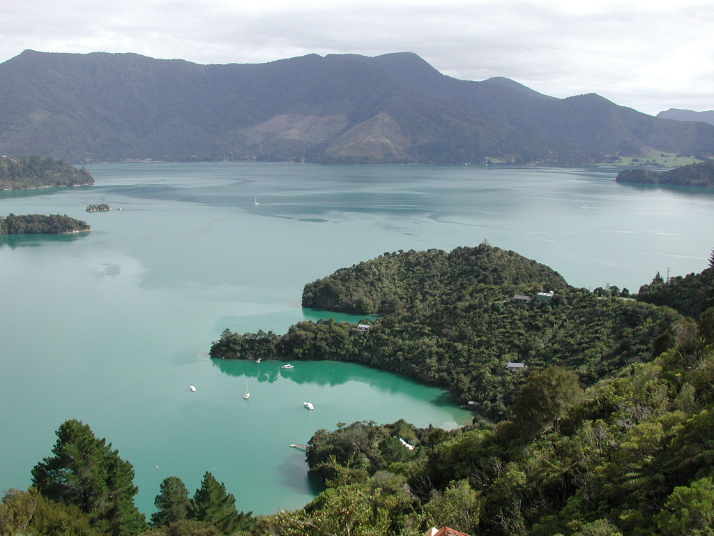 Te Mahia Bay in the foreground, Kenepuru Sound in the background - photo taken from Queen Charlotte Track